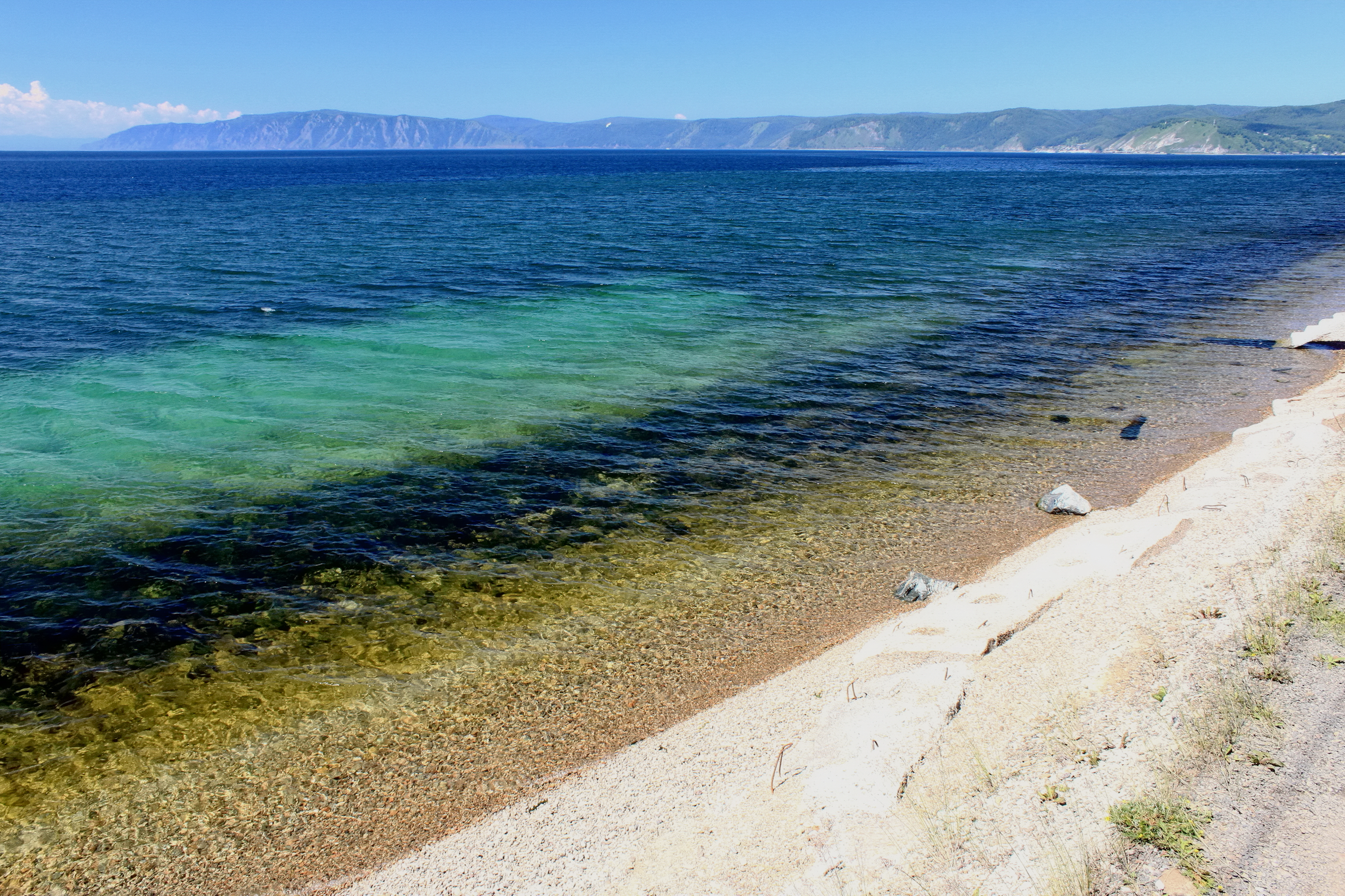 View of Lake Baikal. Listvyanka, Russia.